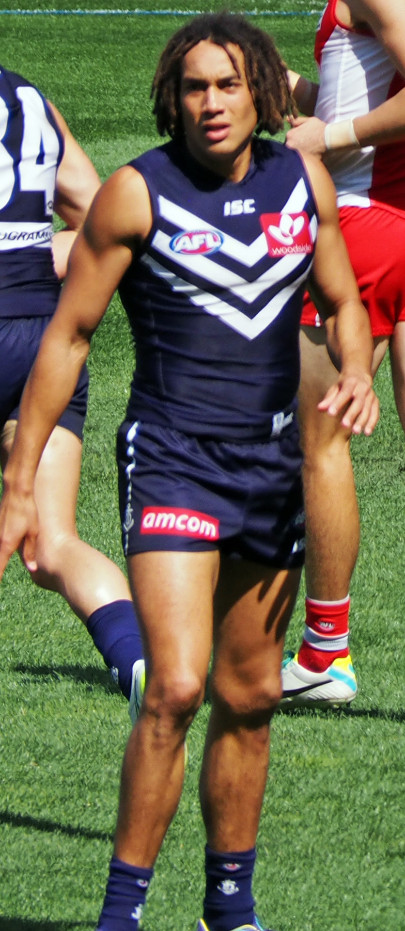 Tendai Mzungu playing for Fremantle Football Club at Patersons Stadium, Finals Week 1, 12 September 2015